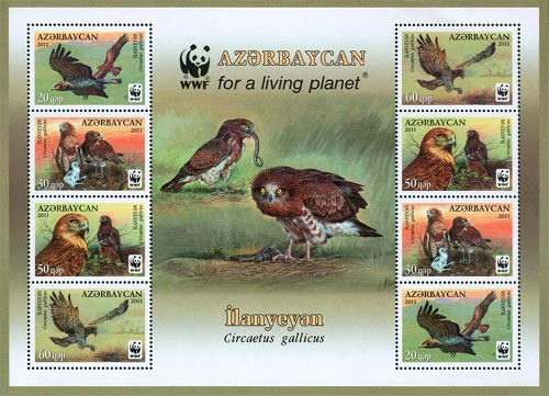 WWF - 2011. Short-toed snake eagle.